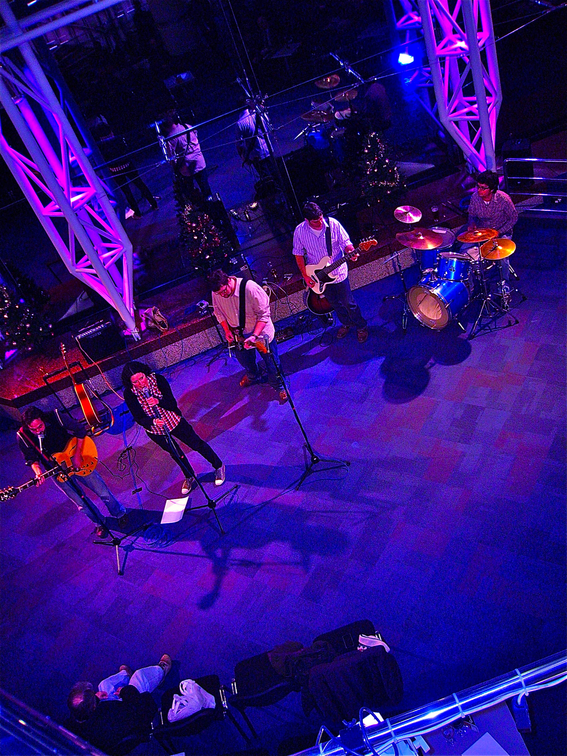 Friends of the Stars playing live at Birmingham Symphony Hall, December 2011